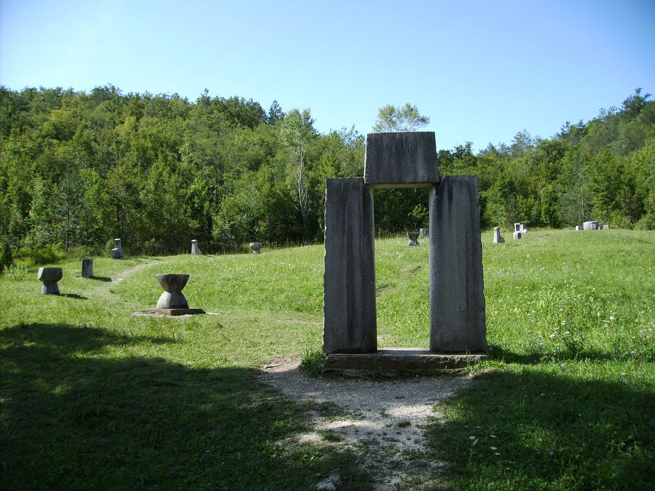 Istarski Razvod at the Glagolitic Avenue near Hum, Croatia